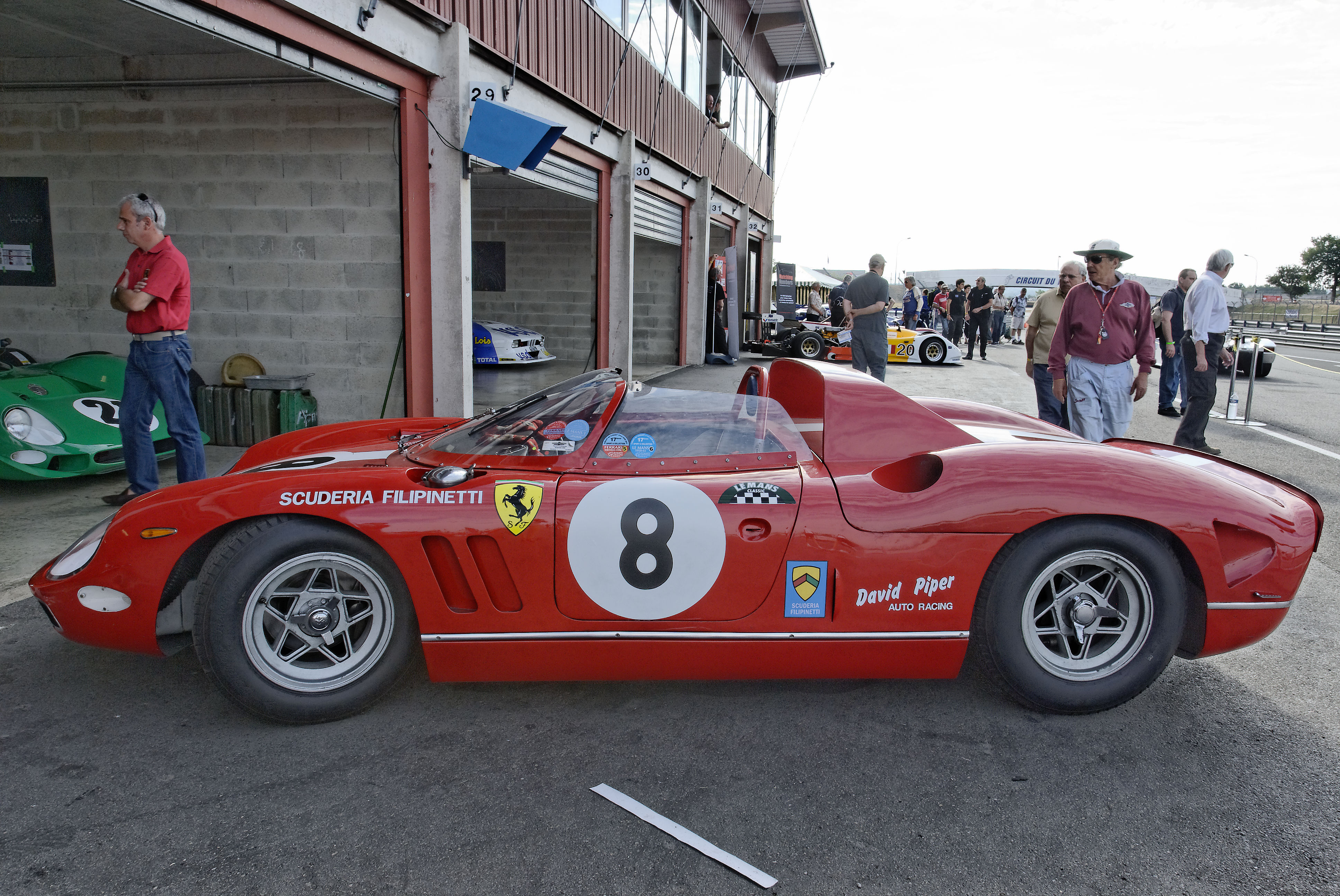 1964 Ferrari 330P s/n 0824 at Sport & Collection 2011